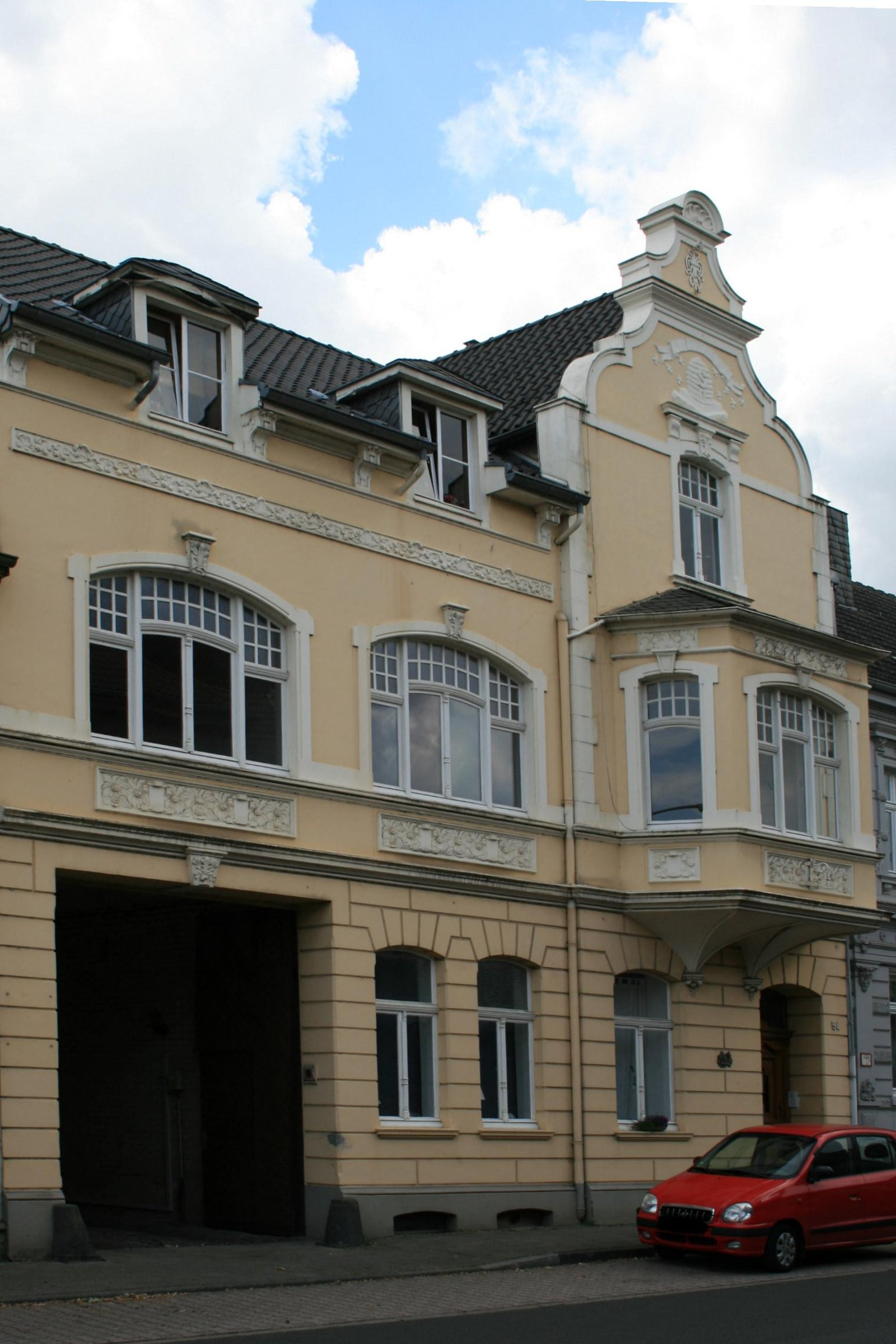 Cultural heritage monument No. B 040 in Mönchengladbach